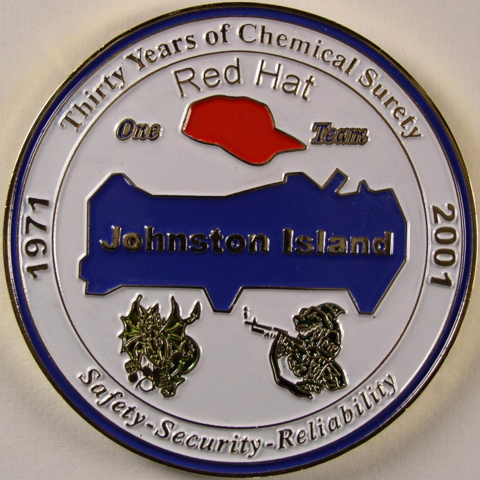 30 years of Operation Red Hat challenge coin